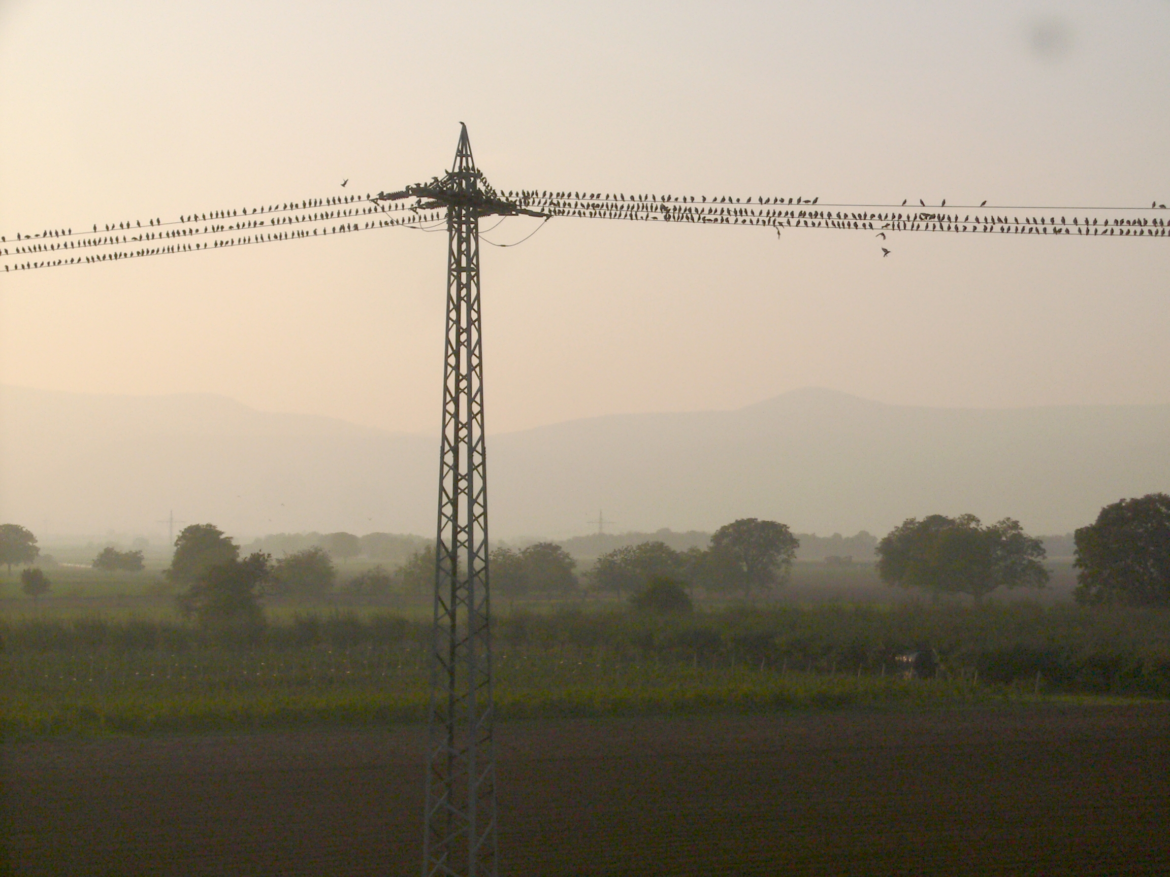 Haßloch (Pfalz), Germany – Migratory birds (persumably Common Starling) on a high-voltage power line, in the background the Haardt can be seen